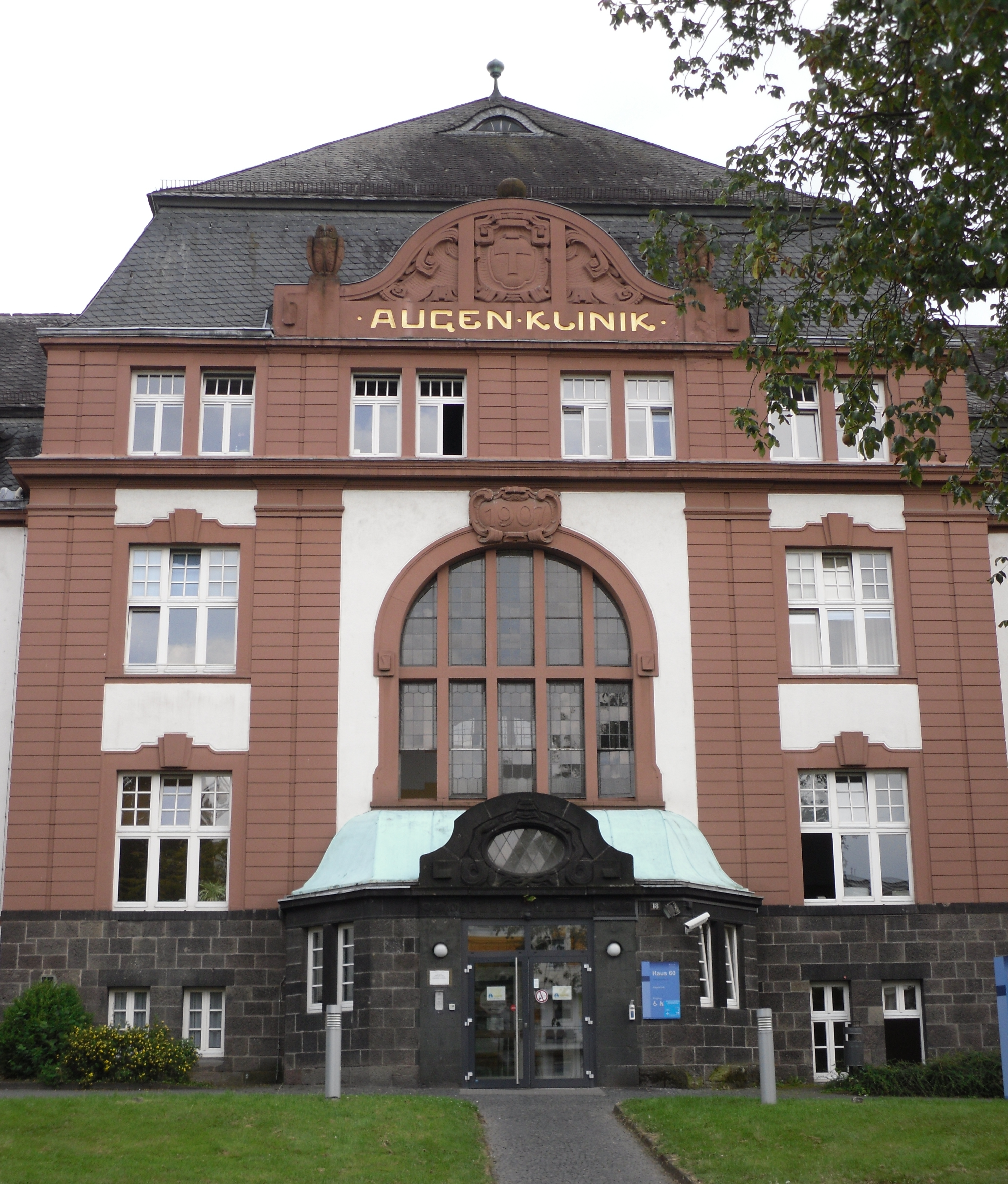 Central building at 18, Friedrichstraße, Gießen, Germany